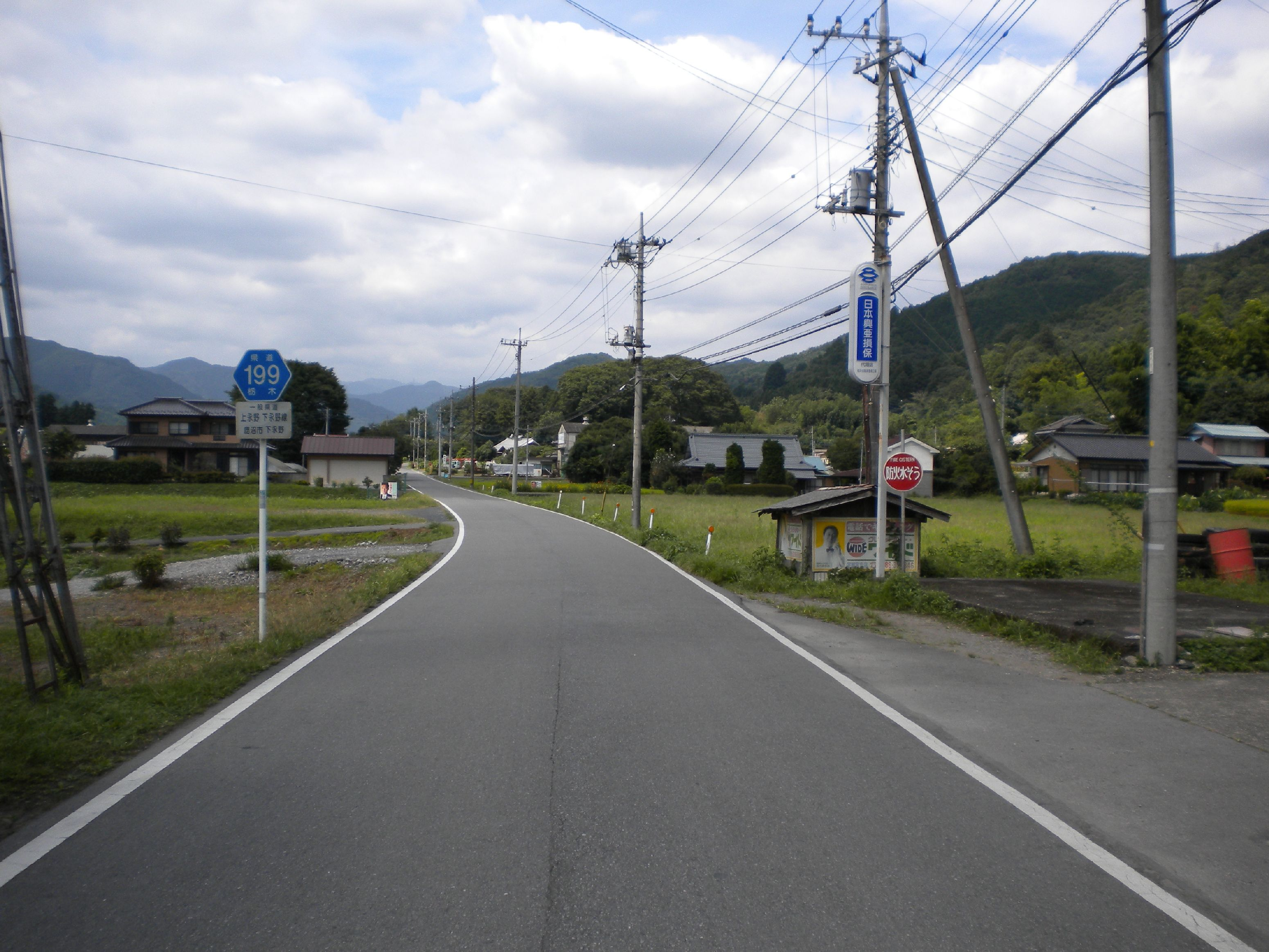 The Tochigi Prefectural Road Route 199 in Shimonagano, Kanuma City